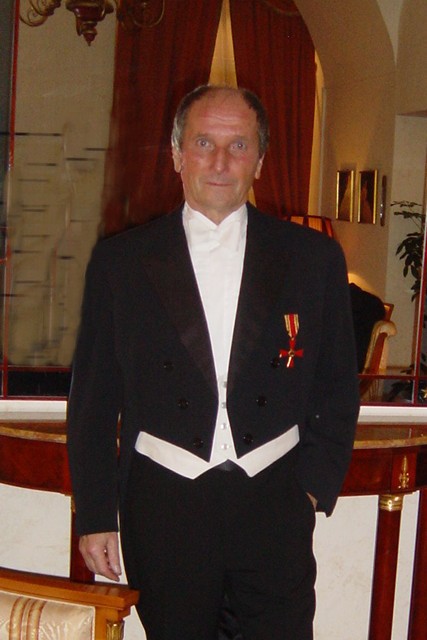 Dinsel - The Order of Merit of the Federal Republic of Germany